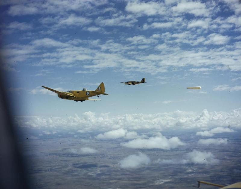 Commonwealth Joint Air Training Plan, No 24 Bombing, Gunnery and Navigational School at Moffat, Rhodesia, January 1943 A Fairey Battle aircraft towing a drogue sleeve while the student operates the power turret of Airspeed Oxford AS515.